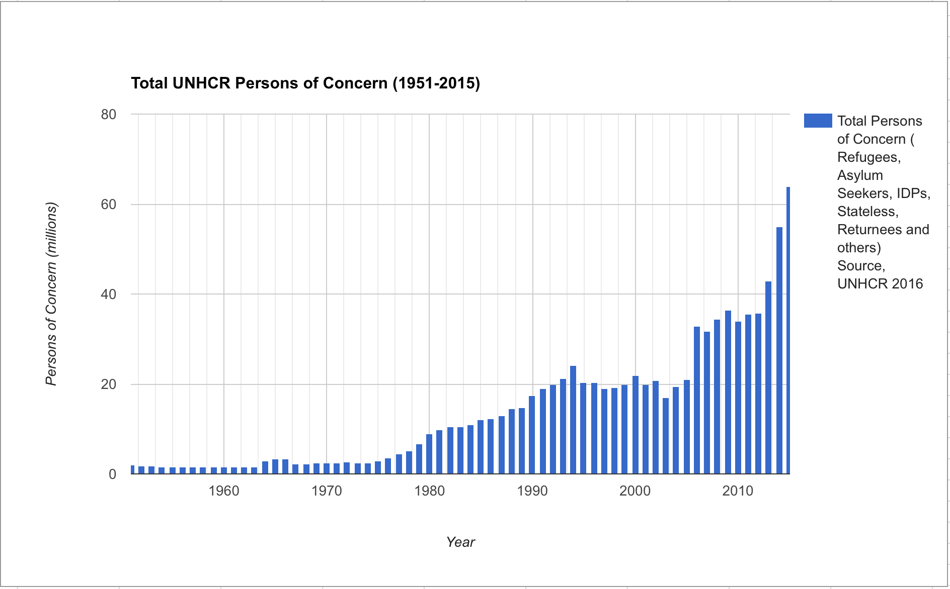 Graph showing the total number of refugees and other persons of concern across time.